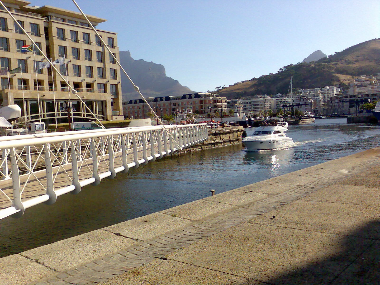 The Marina Swing Bridge at Victoria and Alfred Waterfront, Cape Town, South Africa. This pedestrian bridge is an example of how small swing bridges may be pivoted only at one end, opening as would a gate, but that does require substantial underground structure to support the pivot. Object location33° 54′ 22.68″ S, 18° 25′ 18.84″ E Author: Gregorydavid 20:31, 10 January 2007 (UTC)